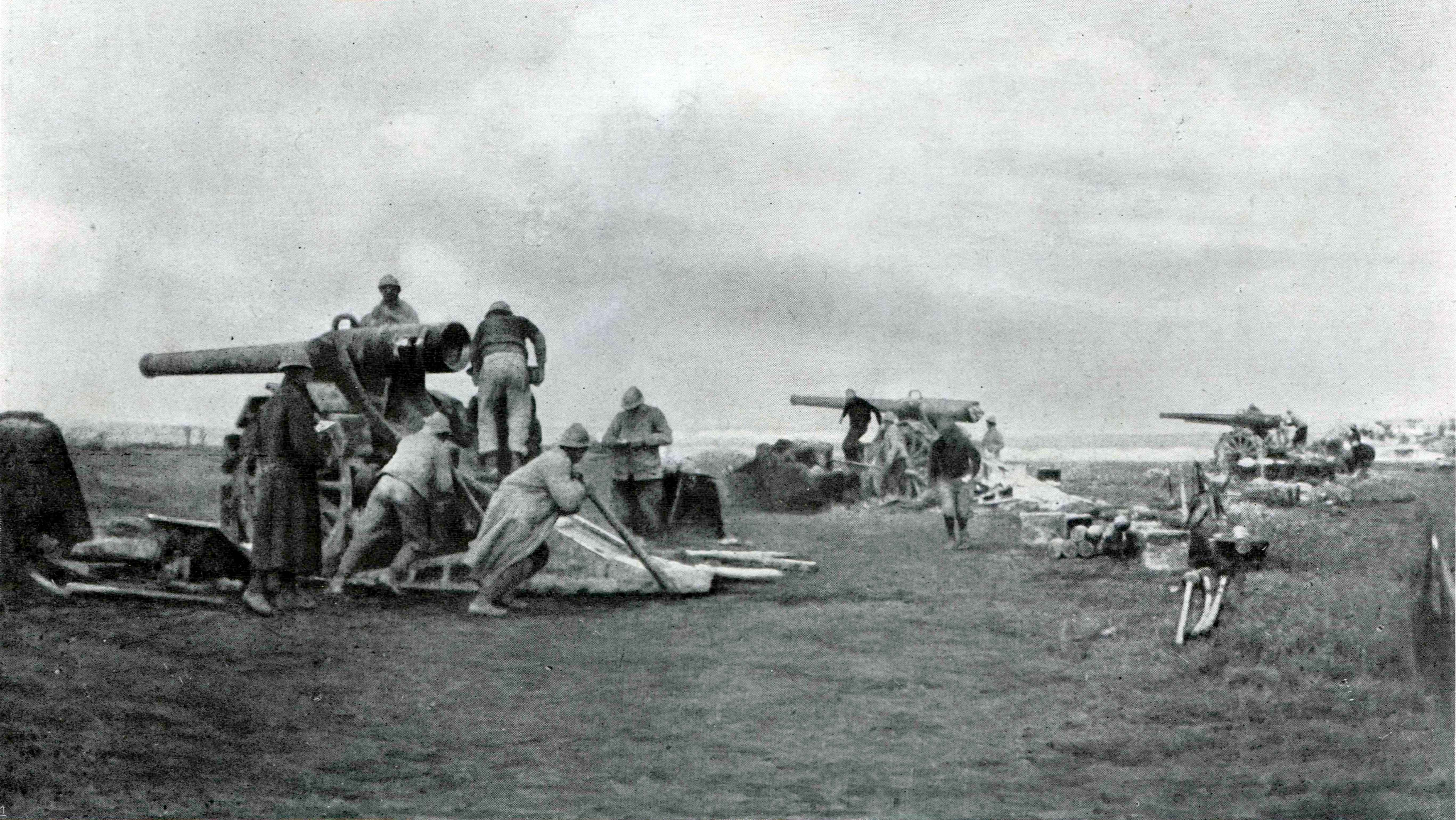 Batterie de 120 longs en pleine action, en Champagne (from the book). Note that the guns are almost certainly the 155 L type because of the shape of the rear section of the tube, which bulges earlier on the 155 and then it is smooth. French and other journalists commonly confused the two types, to the point that some 155 L gunners started to write the type in chalk on their guns before being photographed. (The gunners here being in action, couldn't afford that even if they wanted to.)